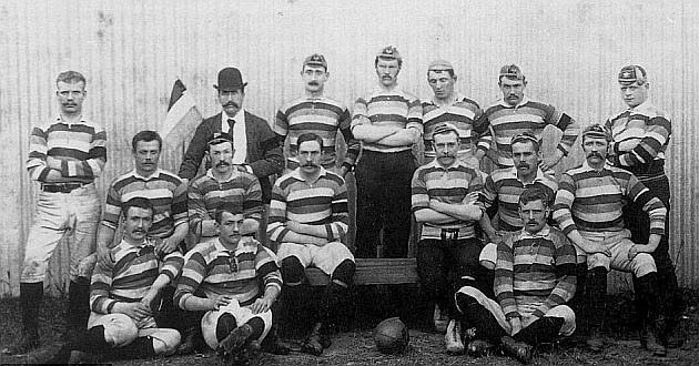 The British Lions team that toured on N. Zealand and Australia.